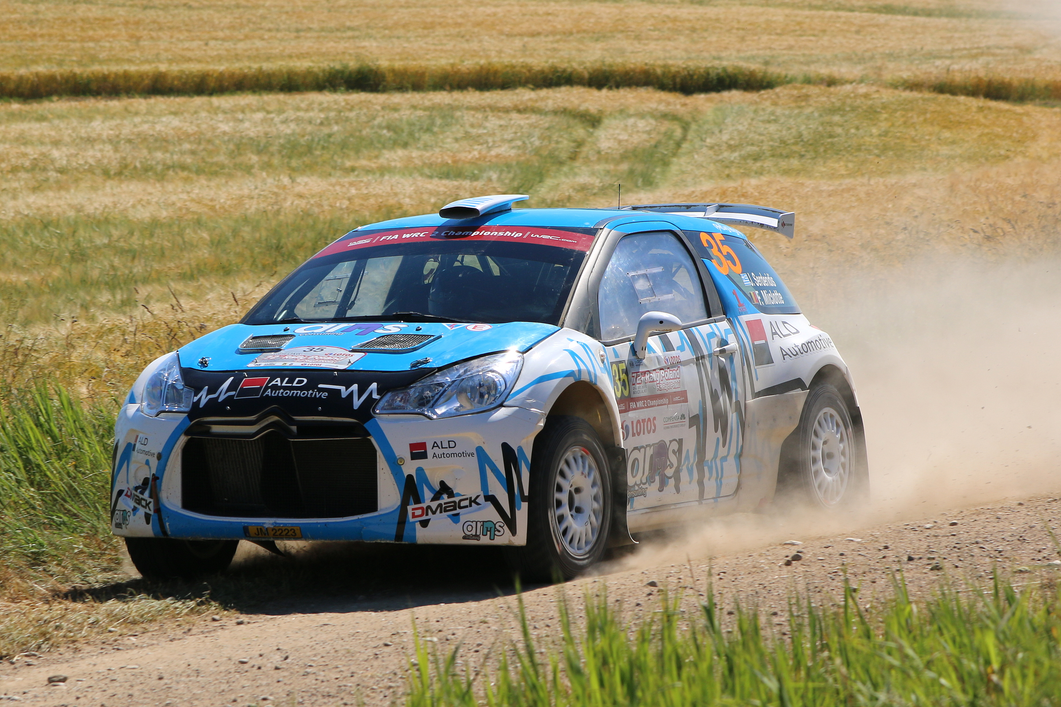 Jourdan Serderidis, OS 10 Mazury, 72nd LOTOS Rally Poland